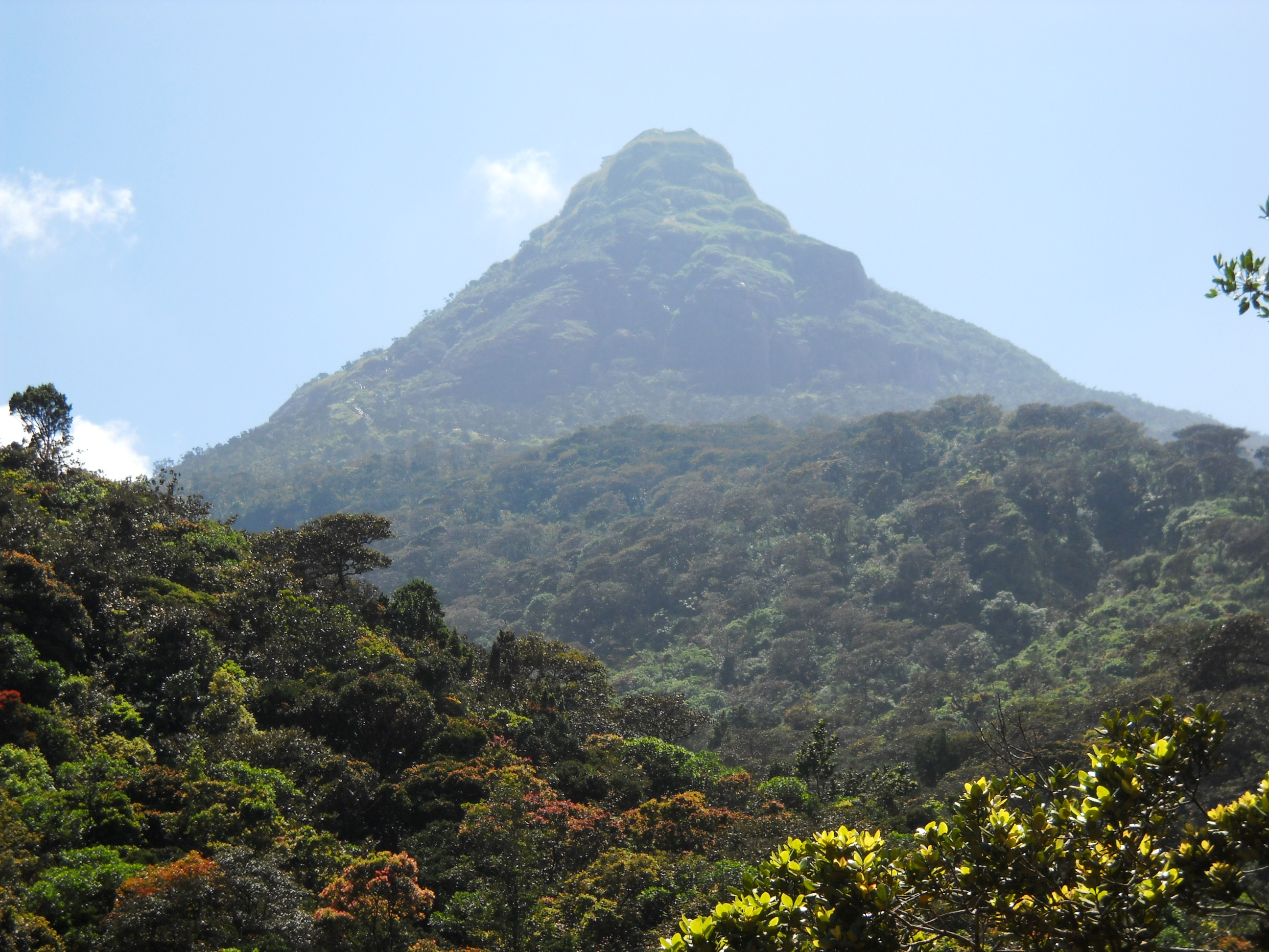 The view of Samanala kanda (Adams peak) from the route of Nallatanniya.